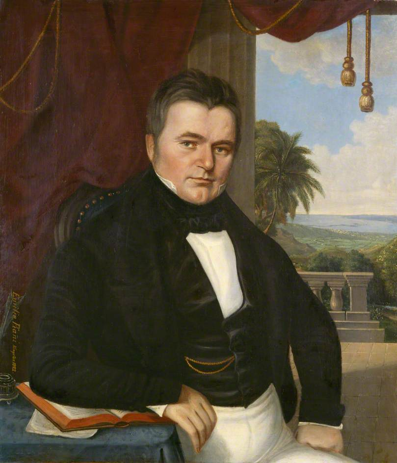 Piani, Emilio; James MacFadyen (1800-1850), MD, FLS; Collection of the Herbarium, Library, Art & Archives, Royal Botanic Gardens, Kew